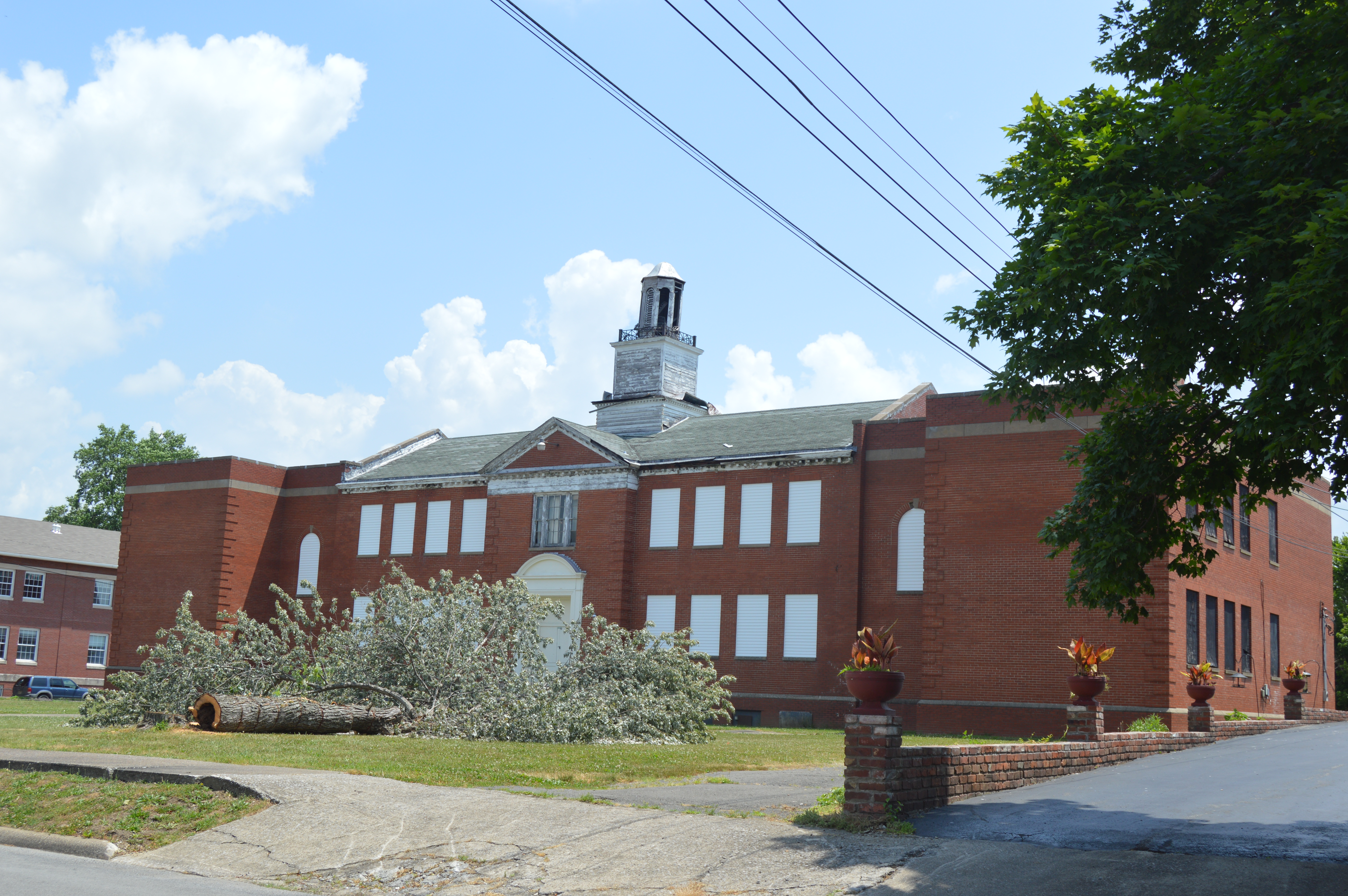 Front and southern end of the former Marion High School, located on the eastern side of College Street at Carlisle Street in Marion, Kentucky, United States.